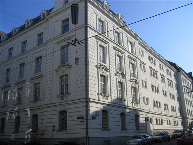 The building of the district court and penitentiary Favoriten (Vienna, Austria).